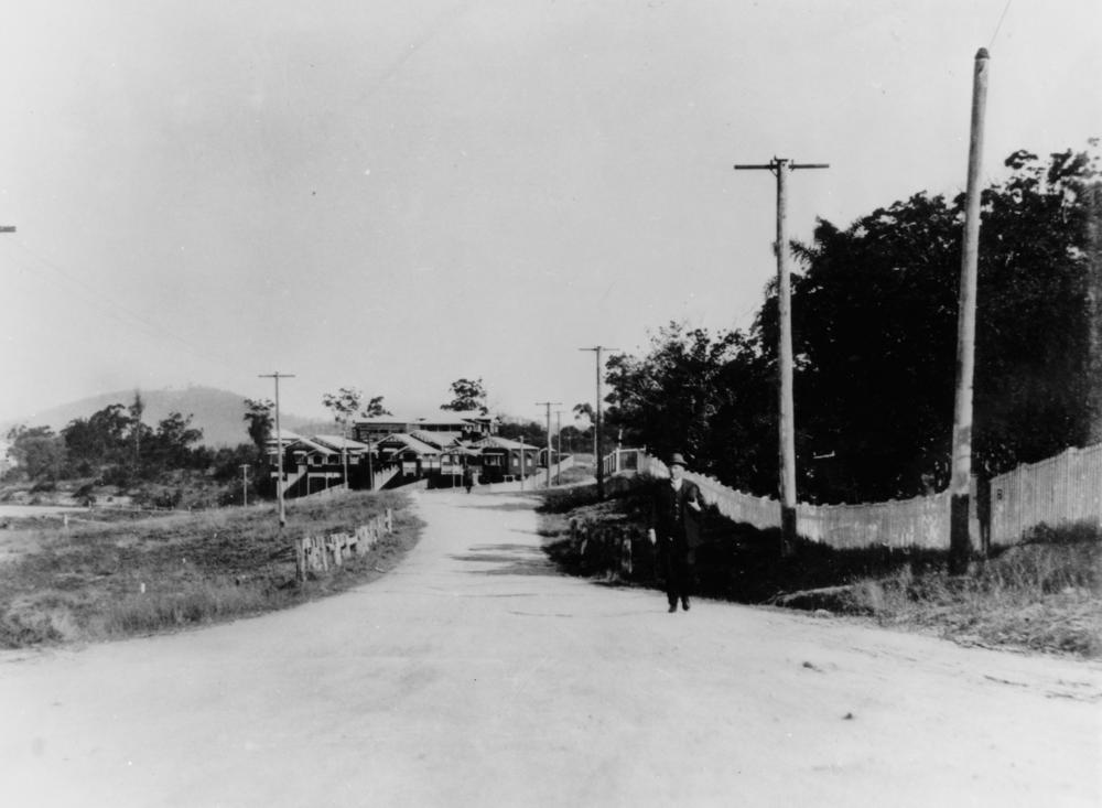 View along Cavendish Road at Coorparoo, ca. 1929. Cavendish Road, beyond the tram terminus, looking towards the corner of Cavendish Road and Geelong Avenue. The white picket fence on the left hand side was the front fence of Edward Deshon's residence. In 1927 Archbishop Duhig purchased this land, on which Loreto Convent now stands. (Description supplied with photograph).